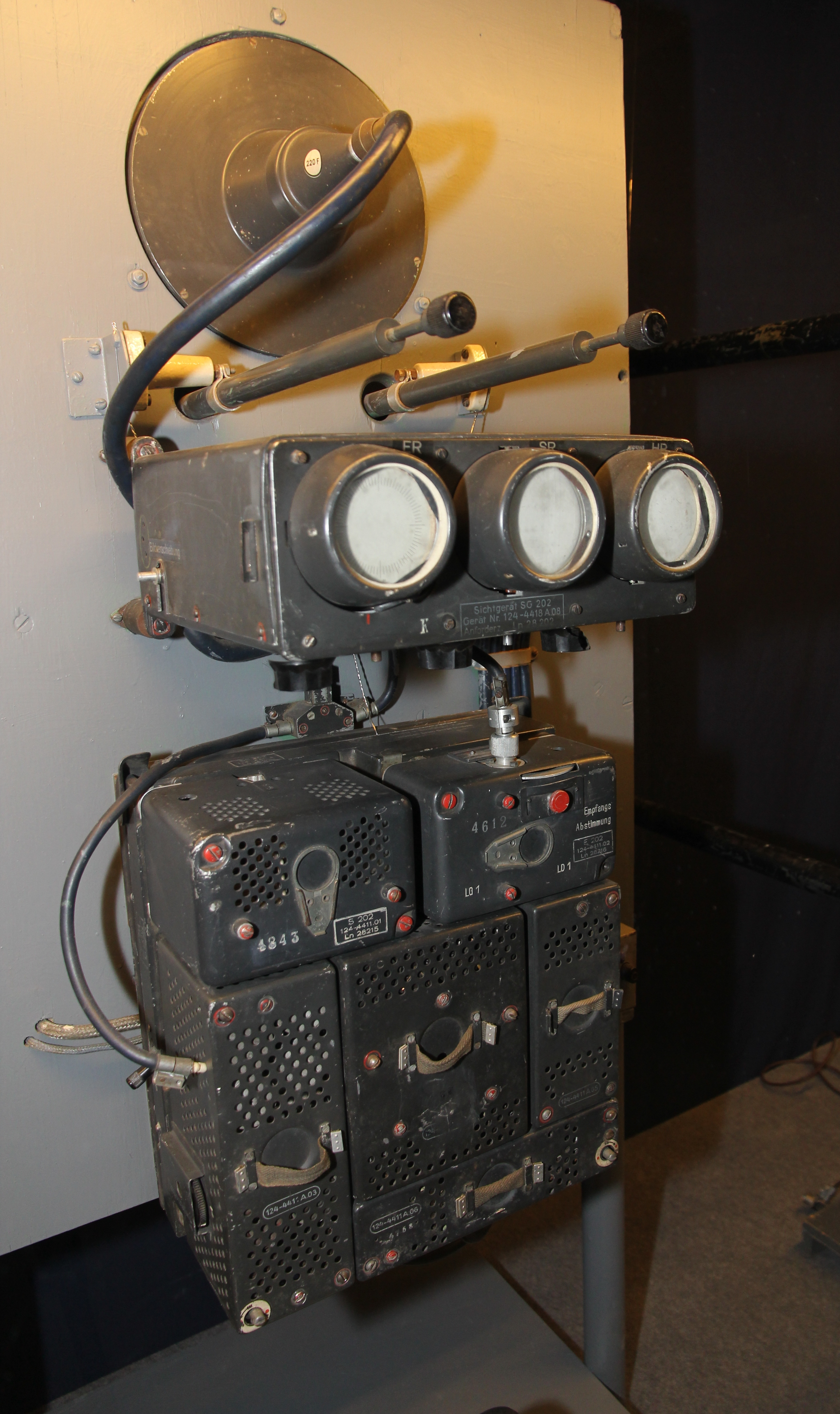 German Lichtenstein FuG 202 airborne radar set (ITU-classificatio: Radiolocation land station in the radiolocation service), purchased by Finland in 1944 but never used due to the armistice. Photographed in the Finnish Air Force signals museum.